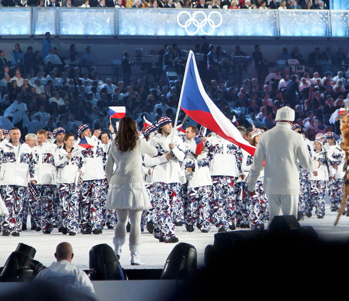 Former NHL superstar Jaromír Jágr leads the Czech Republic. The Opening Ceremony for the 21st Olympic Winter Games in Vancouver British Columbia, Canada was truly an event that I feel privileged to have attended. There is something about the Olympics, and the way it is able to unite the World. I met people from every corner of the globe, every one of them in a cheerful mood, every one of them getting along. Only an event like the Olympics can bring people from so far apart, so close together. It was an amazing experience that I will never forget. Absolutely amazing :)